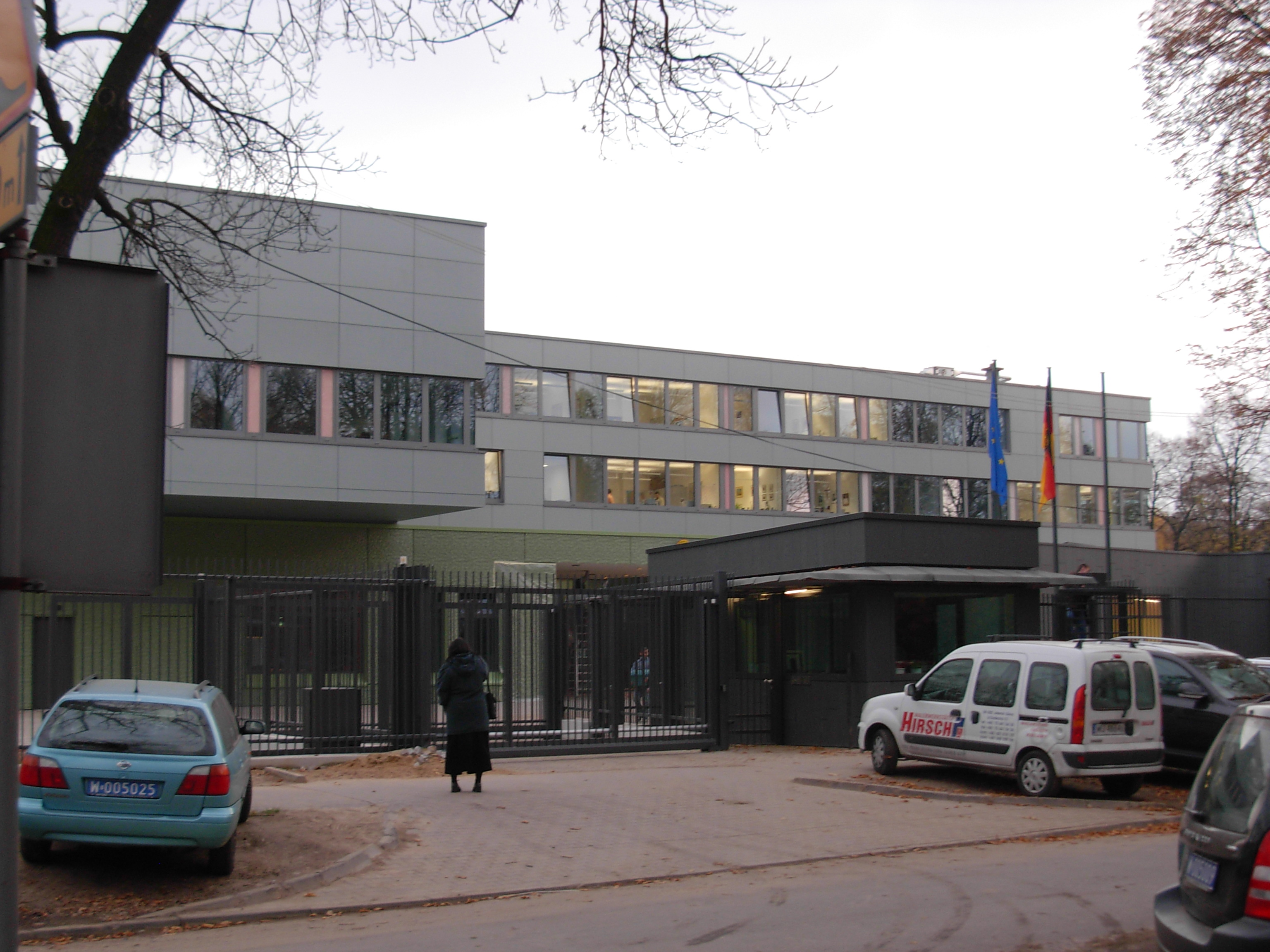 German Embassy in Warsaw